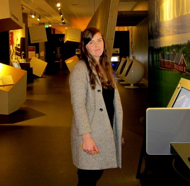 Kristin Auestad Danielsen på Garborgsenteret, desember 2013.